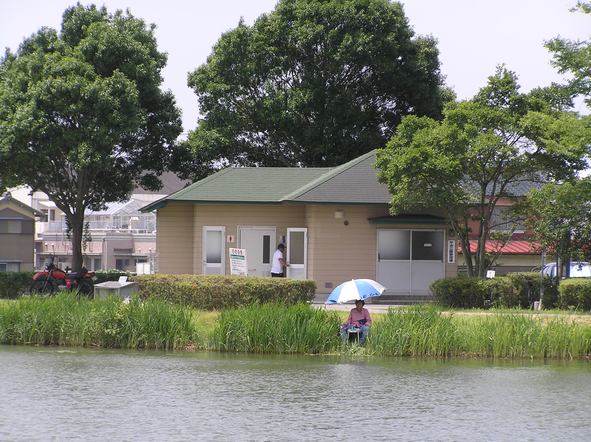 hiraike-park